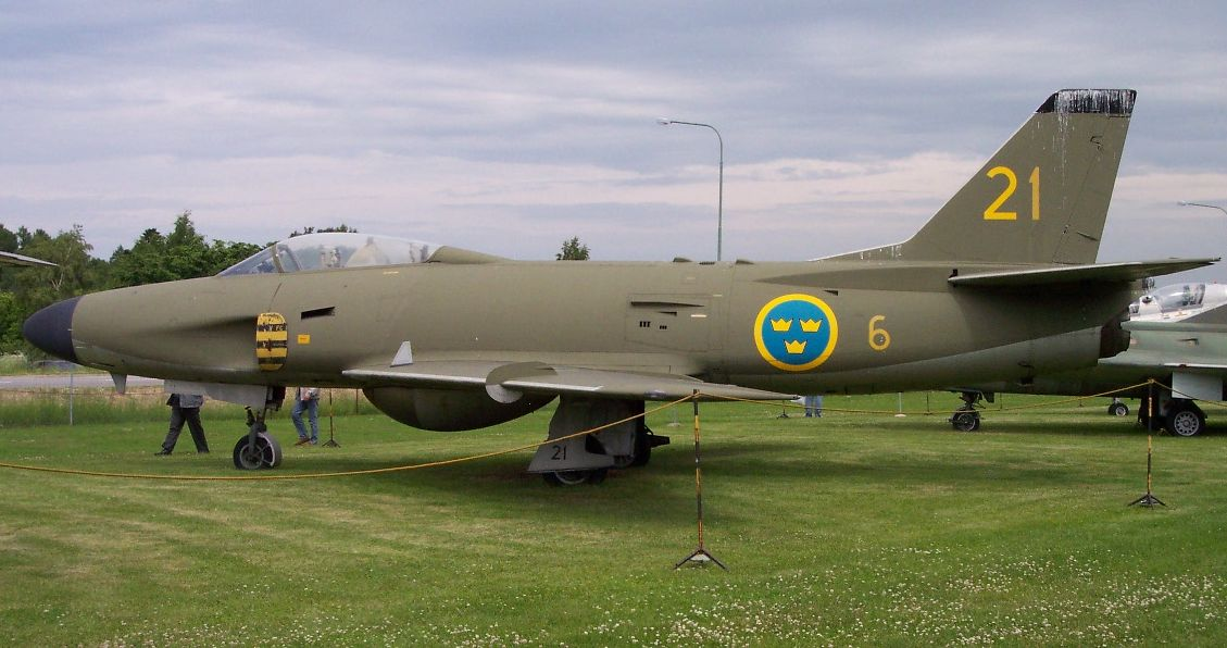 Saab A 32A Lansen at Flygvapenmuseum in Linköping